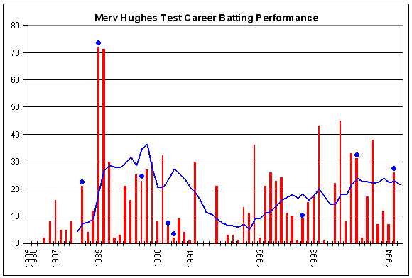 Test batting chart of Merv Hughes. Red columns are the runs in the innings. Blue dots indicate not outs. Blue line is average in the last ten innings. Thanks to Raven4x4x for providing the template.